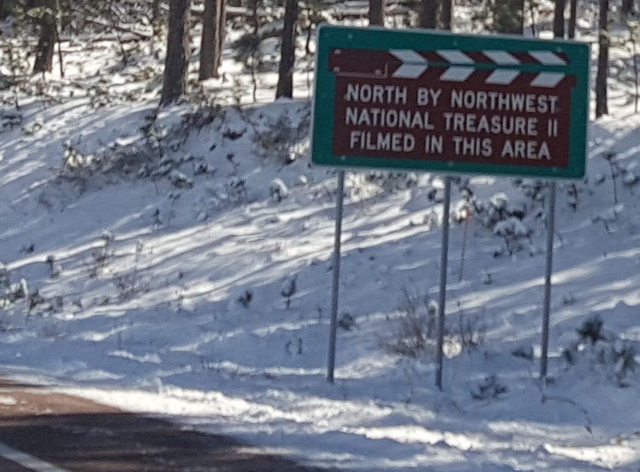 A sign encountered approaching Mount Rushmore from the south, photographed October 14, 2018.